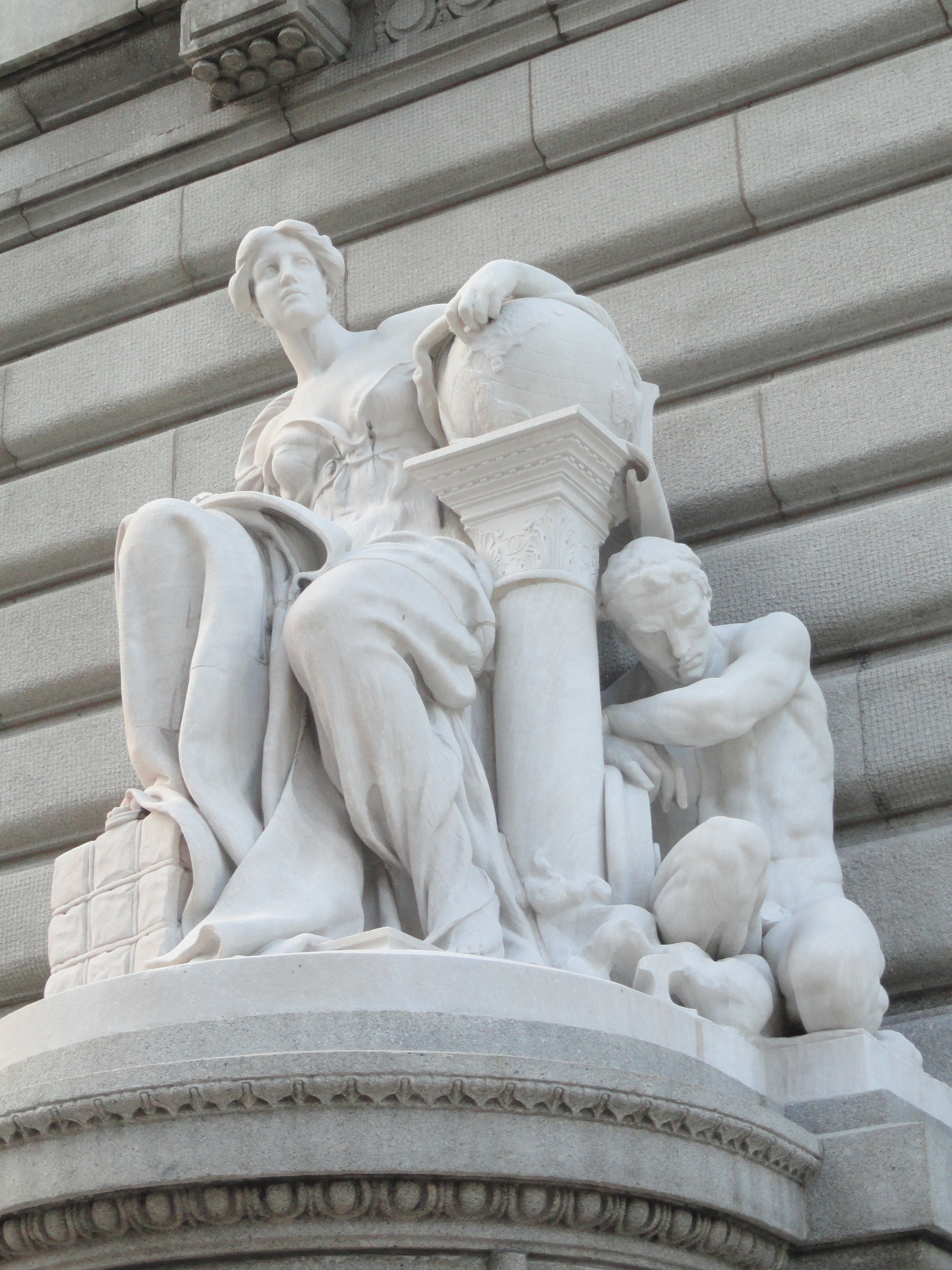 Commerce by Daniel Chester French, 1912, Cleveland, Ohio, USA. This artwork is in the public domain because the artist died more than 70 years ago.